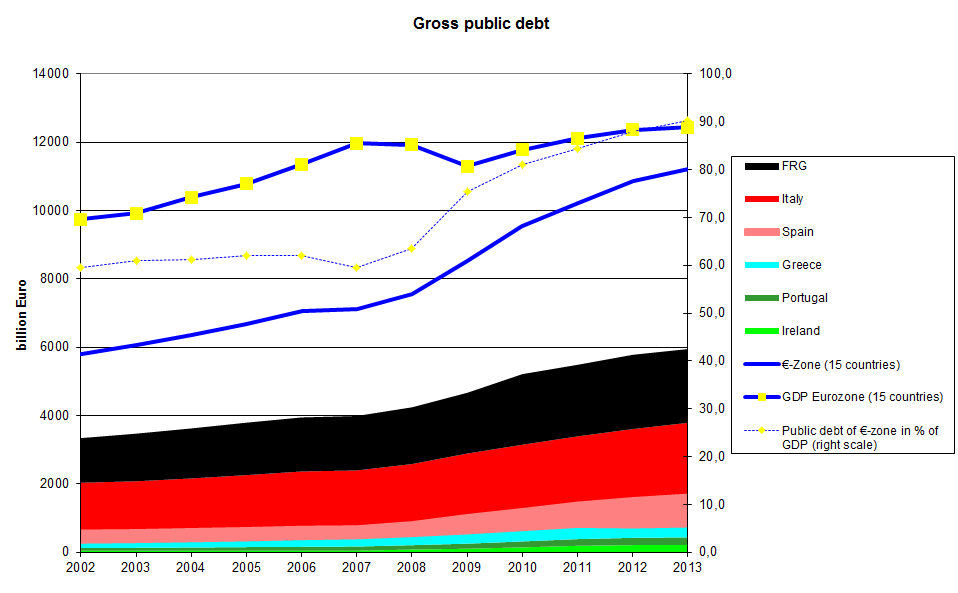 Gross public debt, selected countries of Eurozone, graph based on data from ameco data bank, European commission